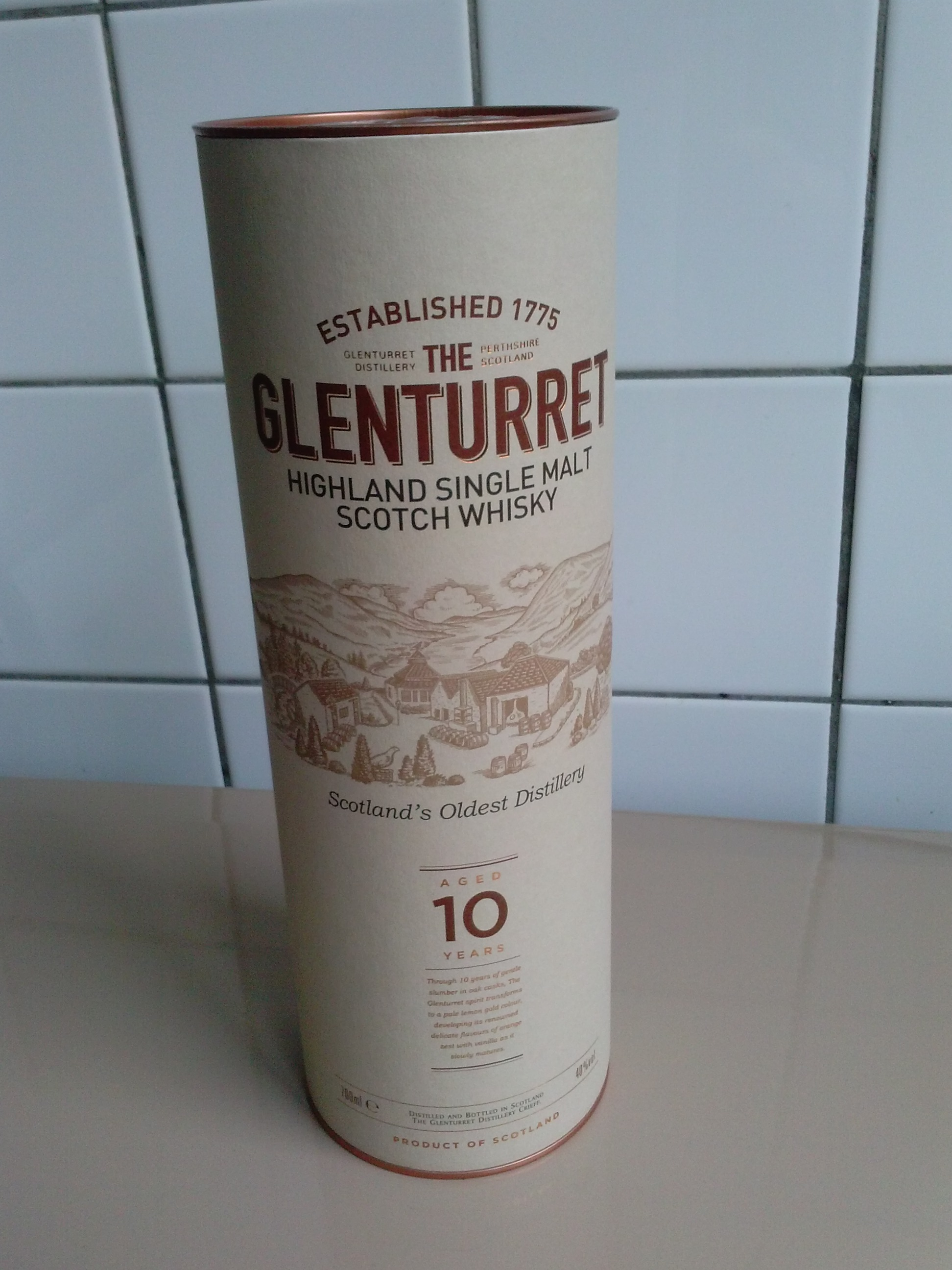 10 years old Glenturret - Highland Single Malt Scotch Whisky.